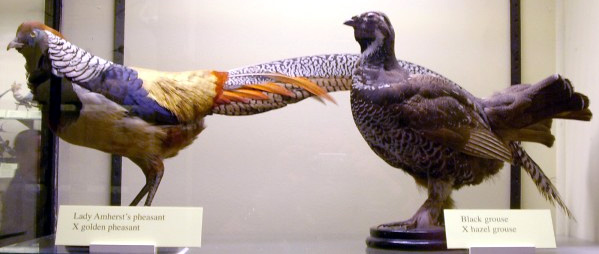 Own work. Lady Amhersts Pheasant × Golden Pheasant (left) and hybrid of Black Grouse × Hazel Grouse (right), Rothschild Museum, Tring. Photo taken of specimens at Rothschild Zoological Museum, Tring, England.